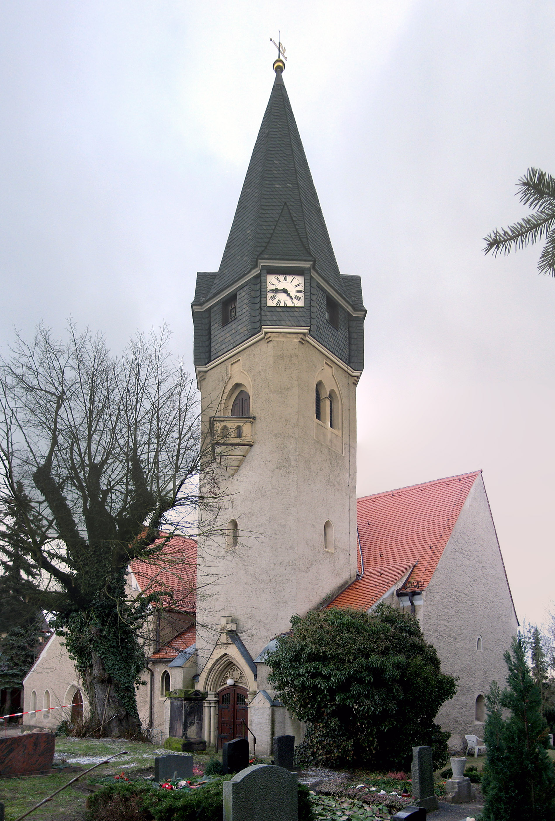 Church “Hainkirche” in Leipzig-Luetzschena, Elsteraue 7